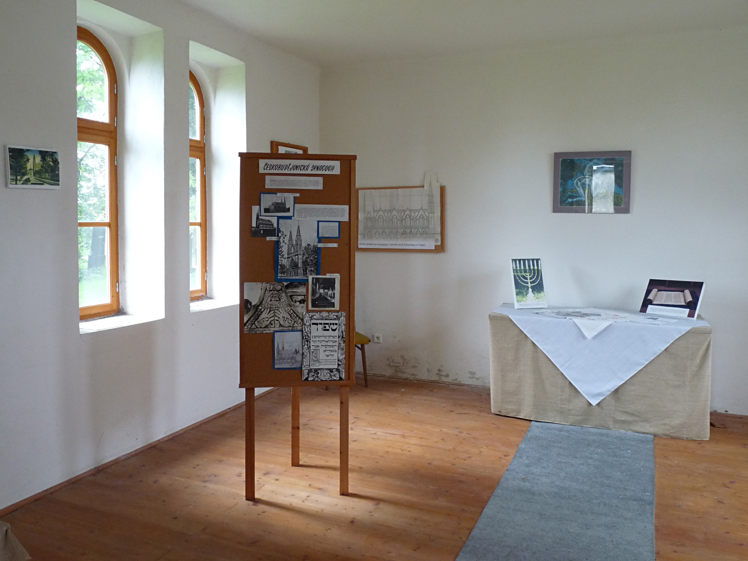 Interior of the Memorial Hall of the Jewish cemetery in České Budějovice, Czech Republic